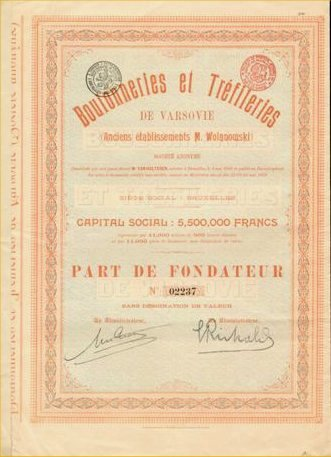 Majer Wolanowski's factory share